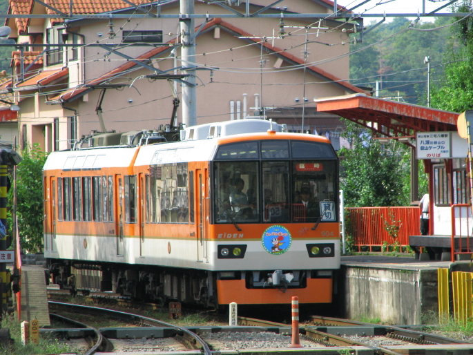 Eizan Electric Railway Type Deo 900 at Yase-Hieizanguchi Station as a chartered train at Miyake-Hachiman Station This type of train does not go to the stations in ordinal operation.